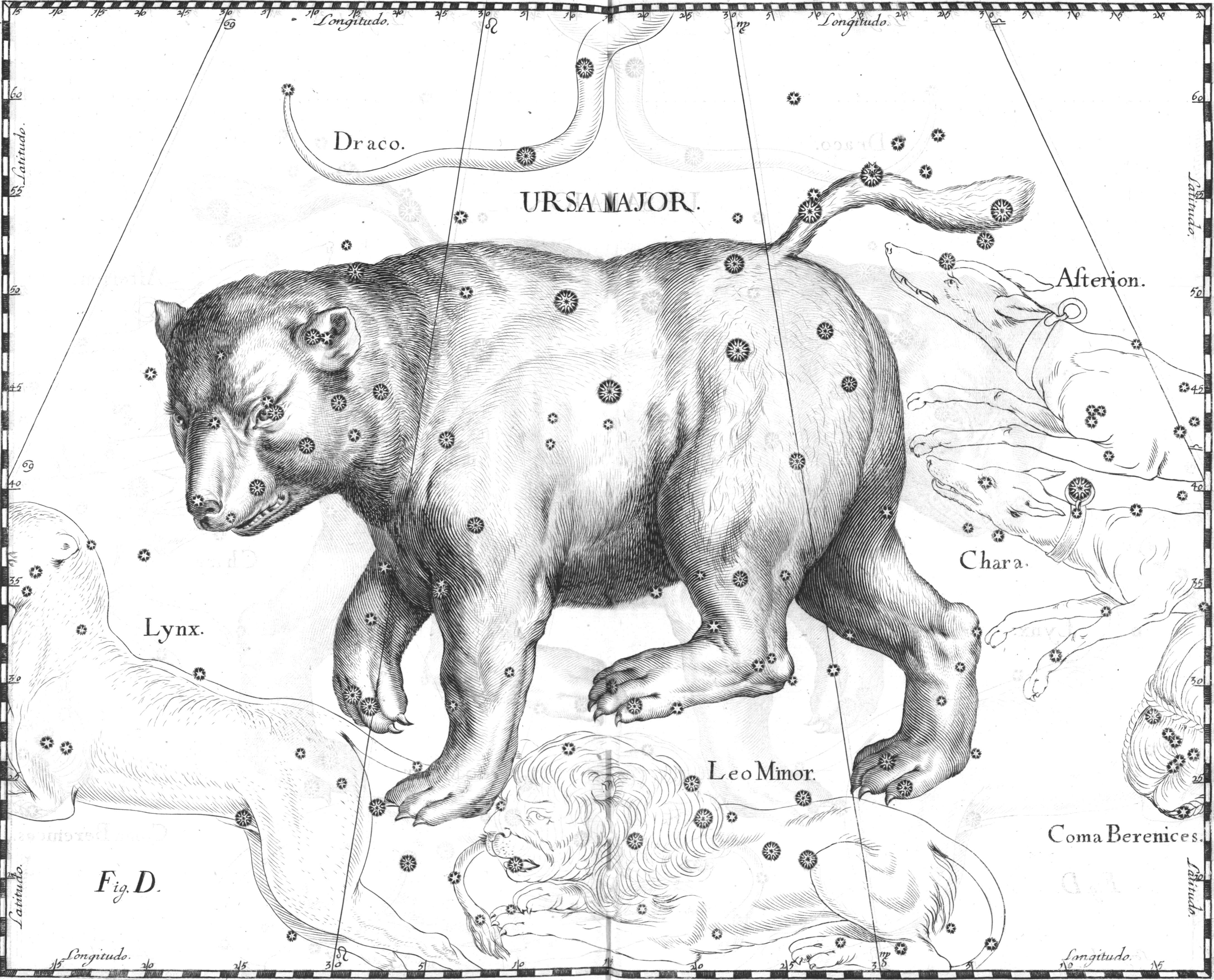 The Ursa Major constellation from Johannis Hevelii prodromus astronomiae (also known as Uranographia) by. The view is mirrored following the tradition of celestial globes, showing the celestial sphere in a view from "outside"